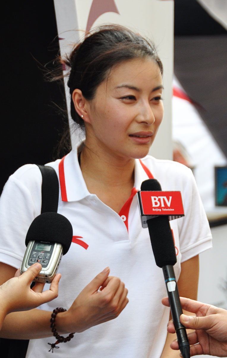 The Diva of Diving